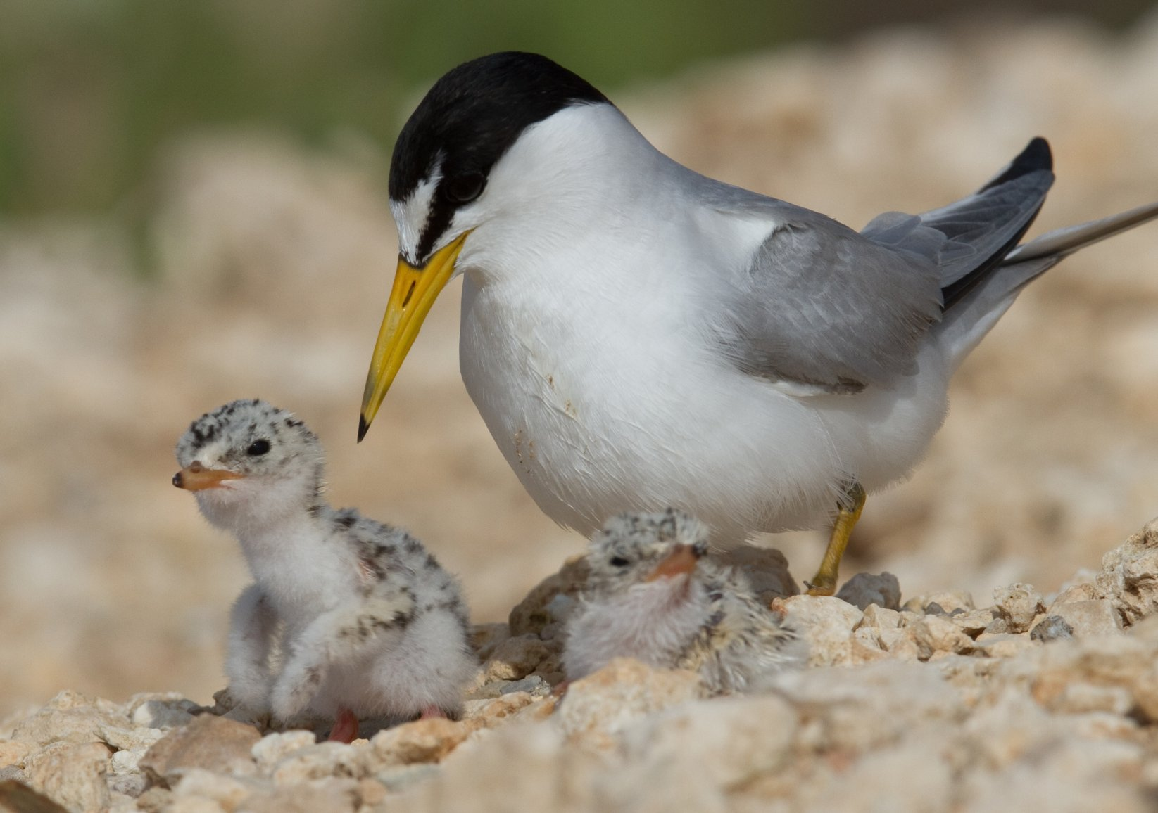 Least Tern Sternula antillarum chicks day two, Quintana Beach, Texas.